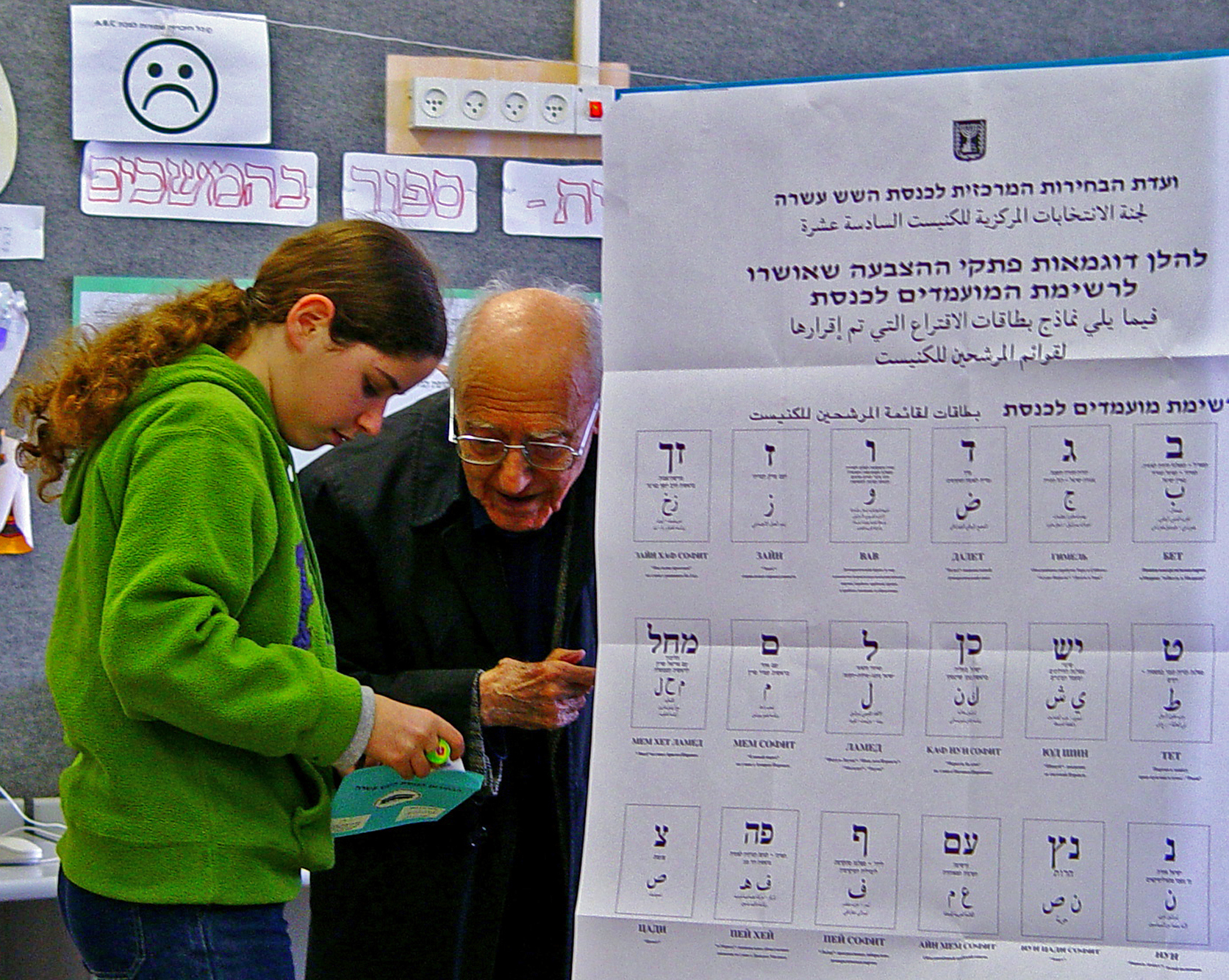 Voting in Israel – Josef Tal is helped by his granddaughter (2003 polls). Photographed in a Jerusalem school.